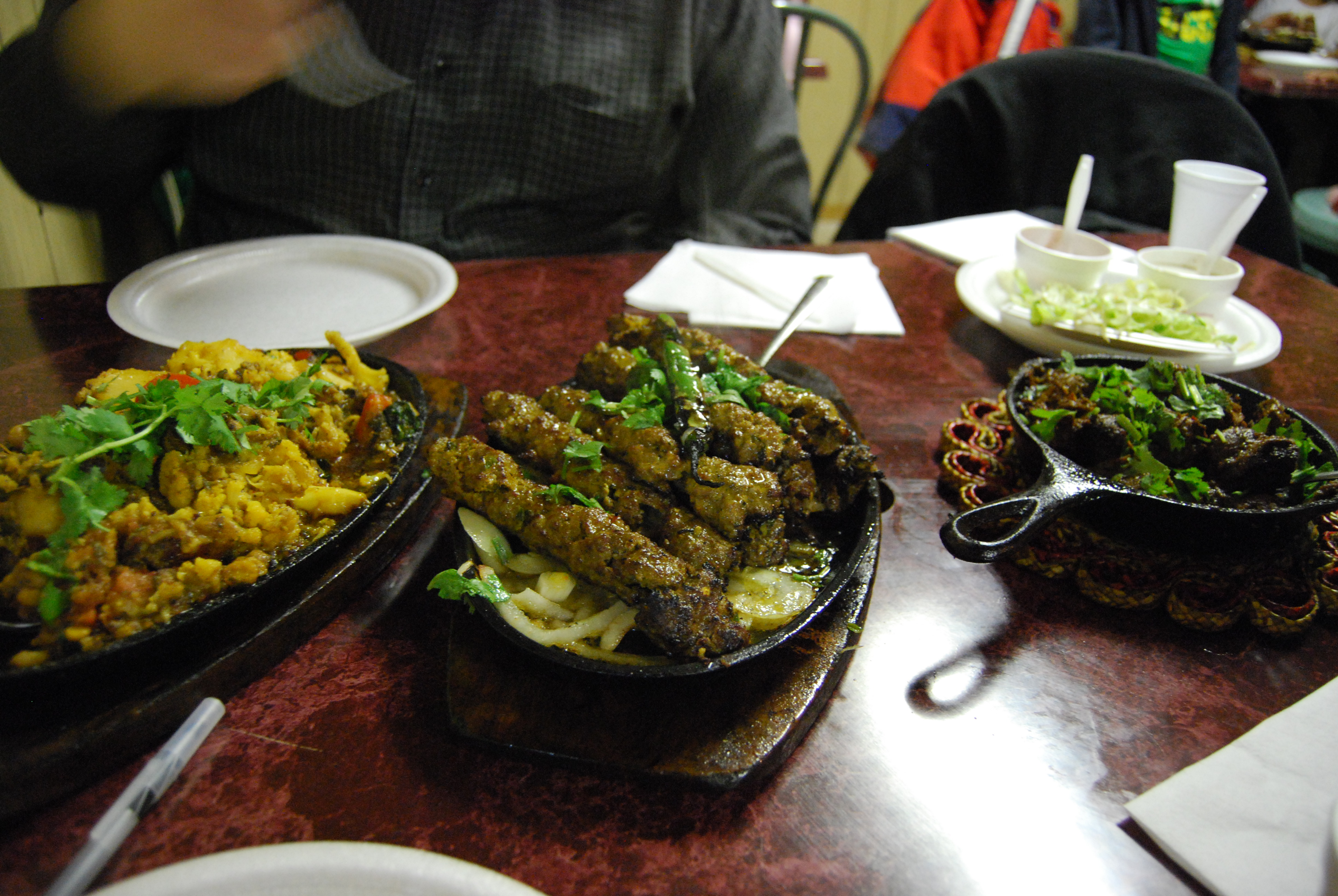 Plenty more to come.